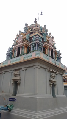 thanjavurmanambuchavadiprasannavenkatesaperumaltemple தஞ்சாவூர் மானம்புச்சாவடி பிரசன்ன வெங்கடேசப்பெருமாள் கோயில்